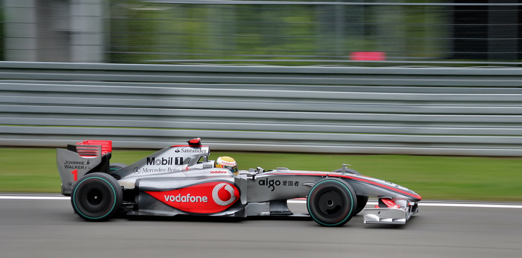 Lewis Hamilton driving for McLaren at the 2009 German Grand Prix.